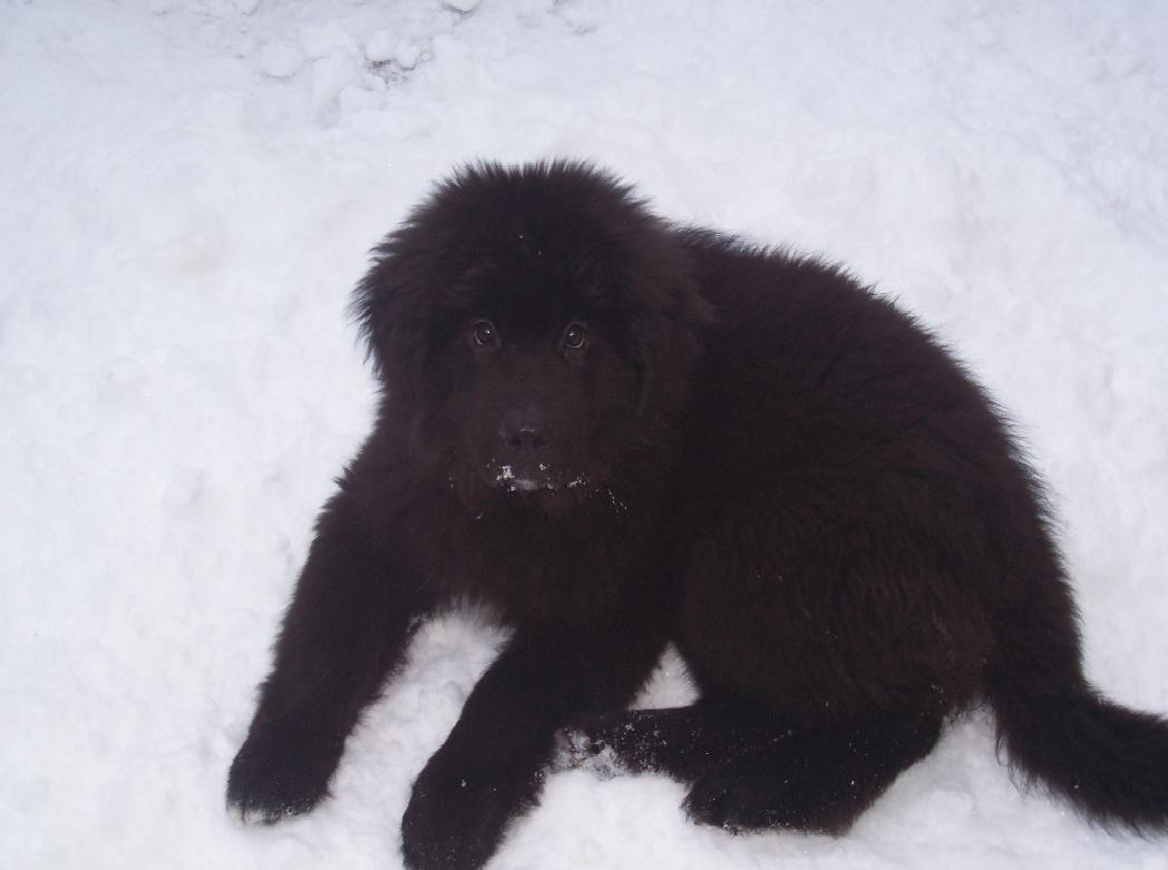 A picture of a male Newfoundland puppy enjoying the snow in Winter.